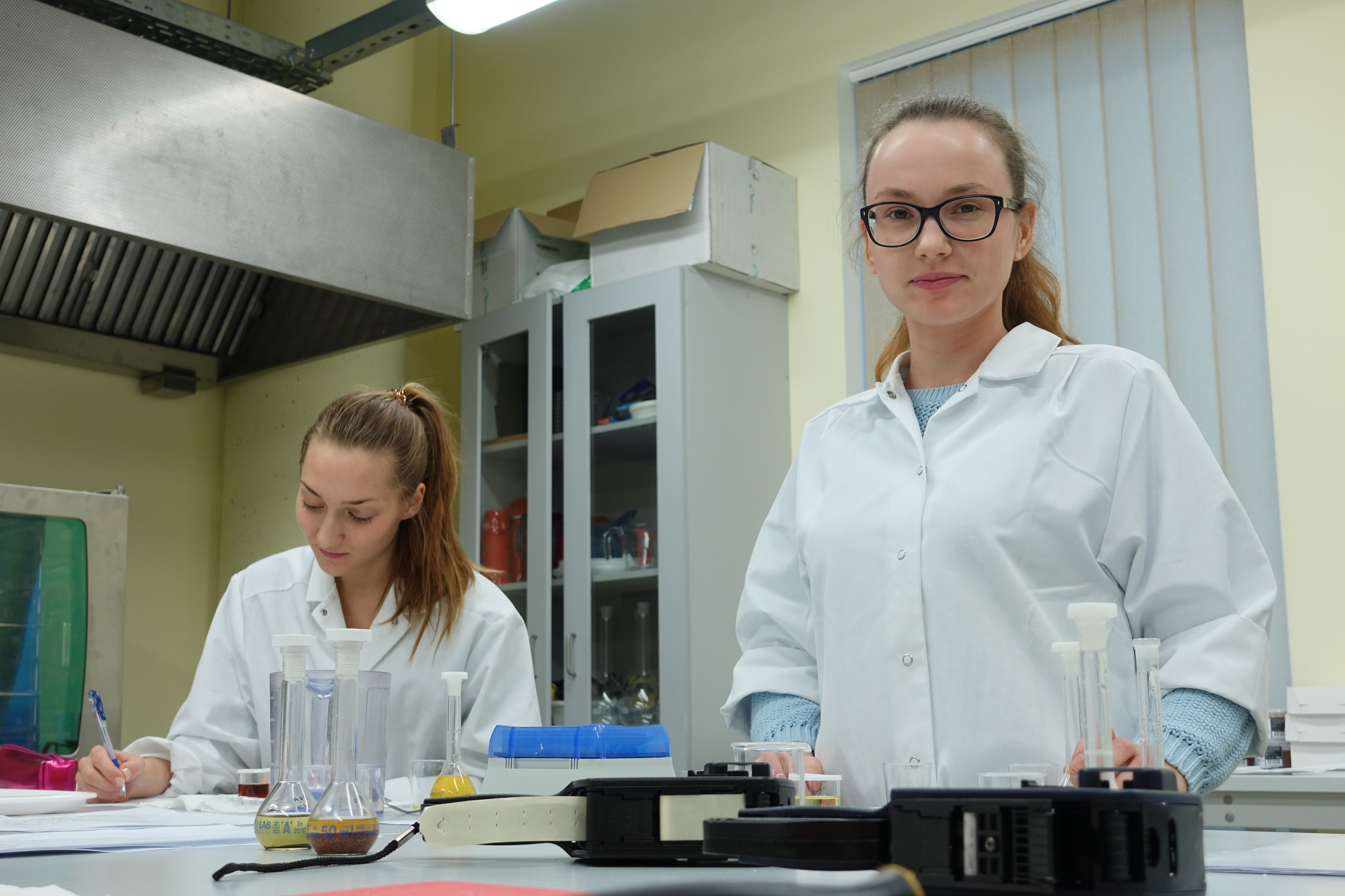 TUT students Kaisa Annu and Joanna-Marta Laos are conducting experiments in food chemistry.